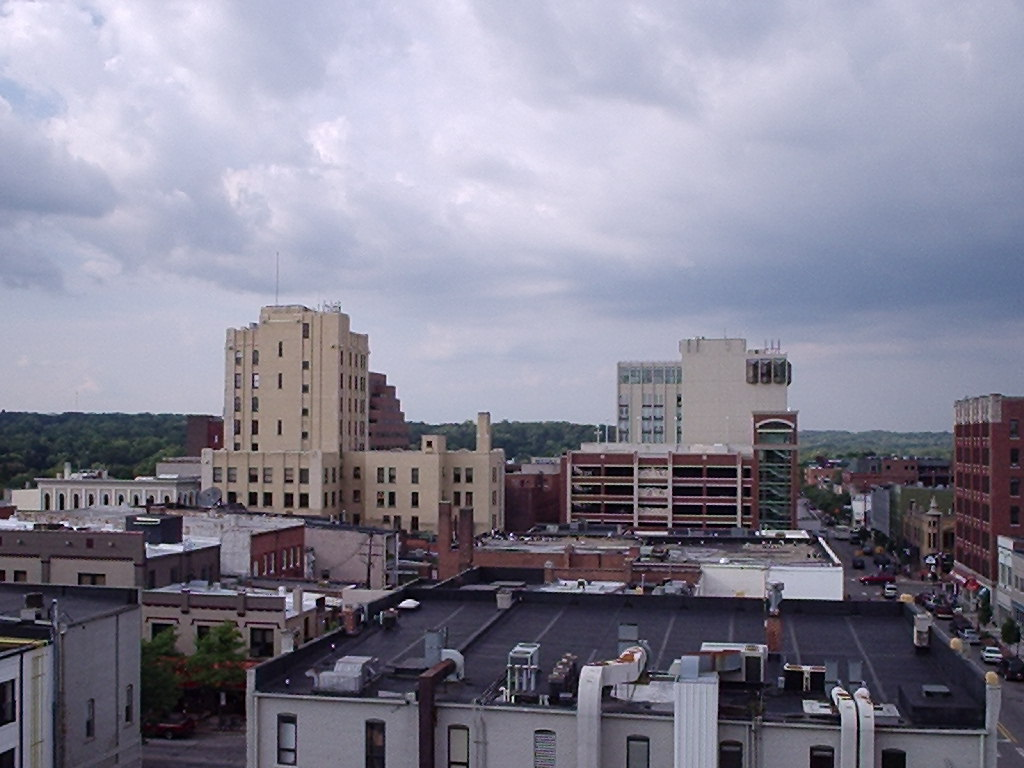 Downtown Ann Arbor highrises. Taken August 31, 2005, from the parking garage by the AATA Transit Center with a 2 megapixel camera.